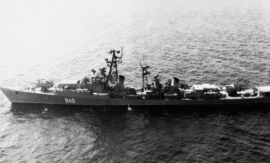 The Soviet Navy Project 57bis-class destroyer Zorkiy underway in 1967.